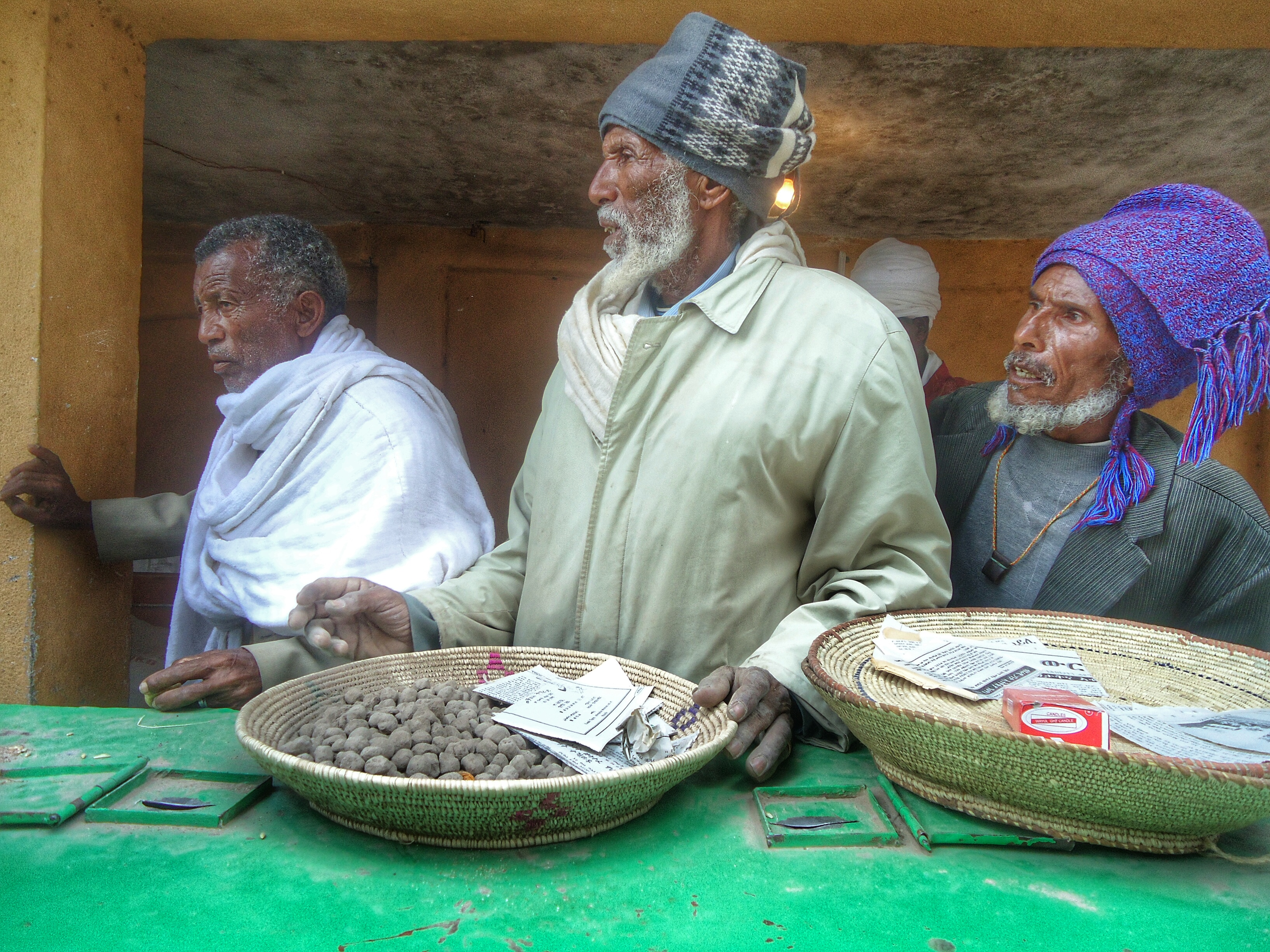 The picture is taken inside Tsion church found in Aksum in April, 2013. Tsion church is beleived to be the place where Arc of the covenant is found. I found three old men giving away 'emnet' which was kept on a 'sefed tray' to people who came to attend Palm sunday known in Ethiopia as 'Hosaena'. Hosaena is celebrated to remember the journey Juseus took to Jerusalem. It falls on a sunday found before Easter. 'Emnet' is given in Ethiopian orthodox church and it is prayed on and people usually put it on top of a painful area in their bodies or use it to feel safe and protected by God.